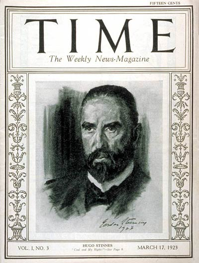 TIME Magazine Cover Featuring Hugo Stinnes (17 Mar 1923)